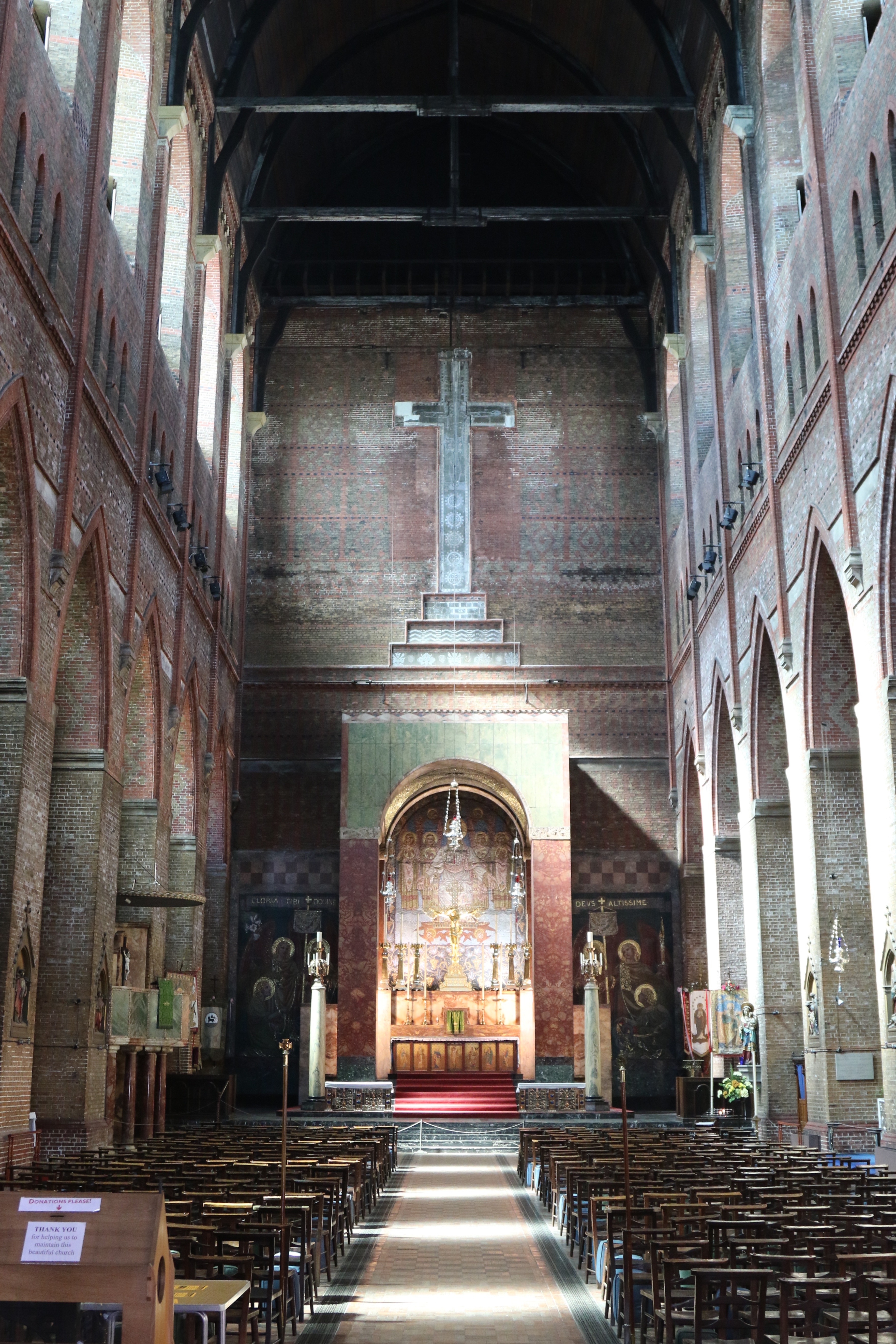 Nave looking east to the high altar